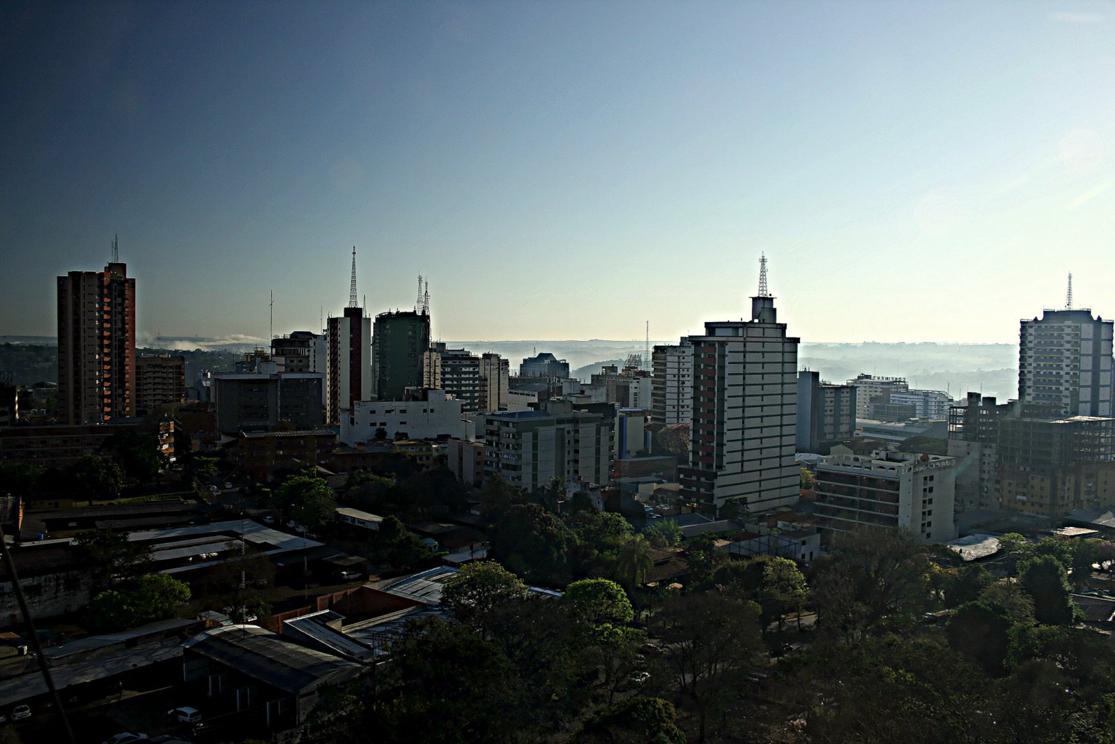 View over downtown Ciudad del Este in the early morning.